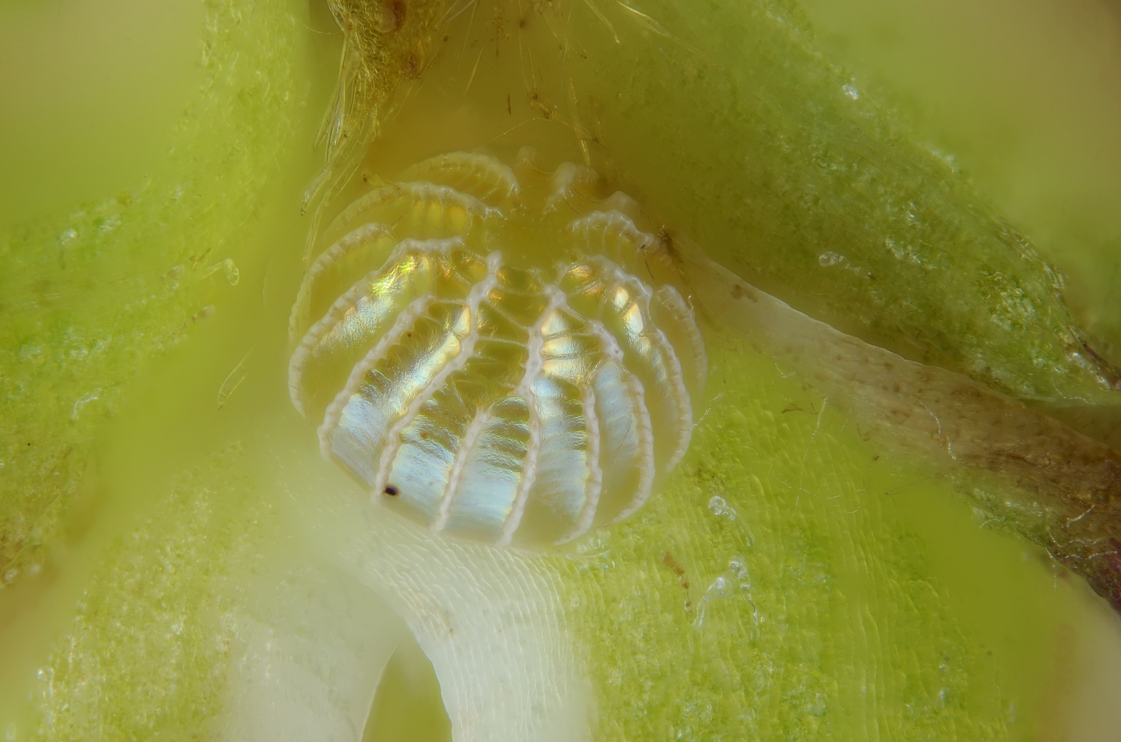 Spialia sertorius egg on a Sanguisorba minor flower Technical settings : - focus stack of 87 images - microscope objective (Nikon achromatic 10x 160/0.25) on bellow